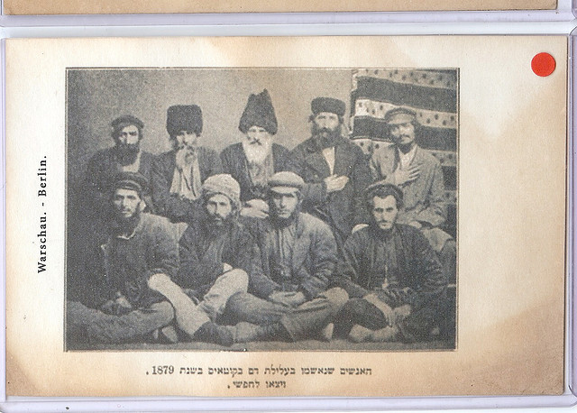 Caucasia Georgia Jews Caucasus - 1879